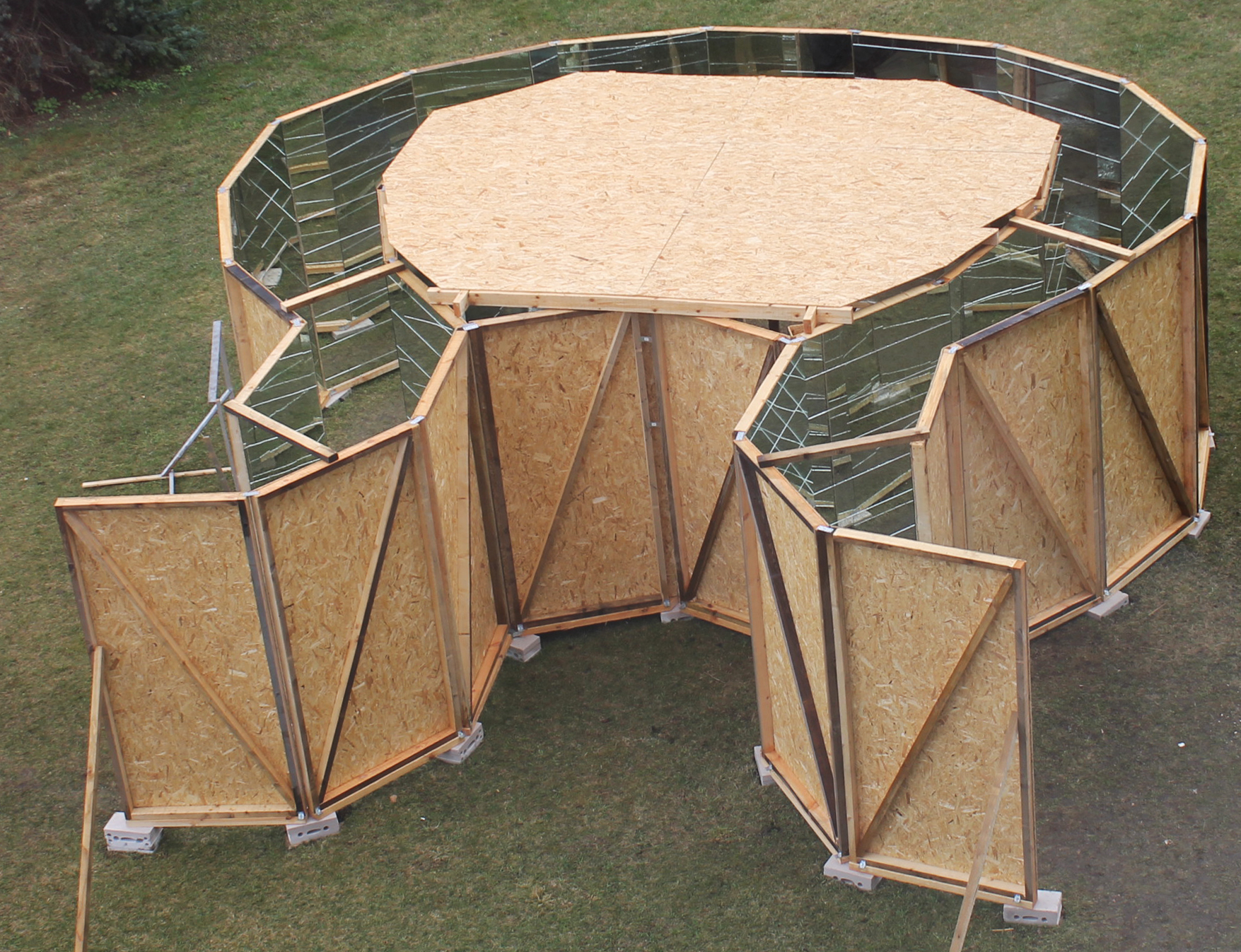 Nuotraukoje pavaizduotas statinys, kuris iliustruoja šviesolaidžio veikimo principą. Šis statinys buvo pavadintas "Kambariolaidis Omega Du". Visos vidinės sienos yra padengtos veidrodžiais, o viduryje įrengtas veidrodžių kambarys. Šis statinys buvo eksponuojamas FiDi44 šventės metu, 2012 metais.